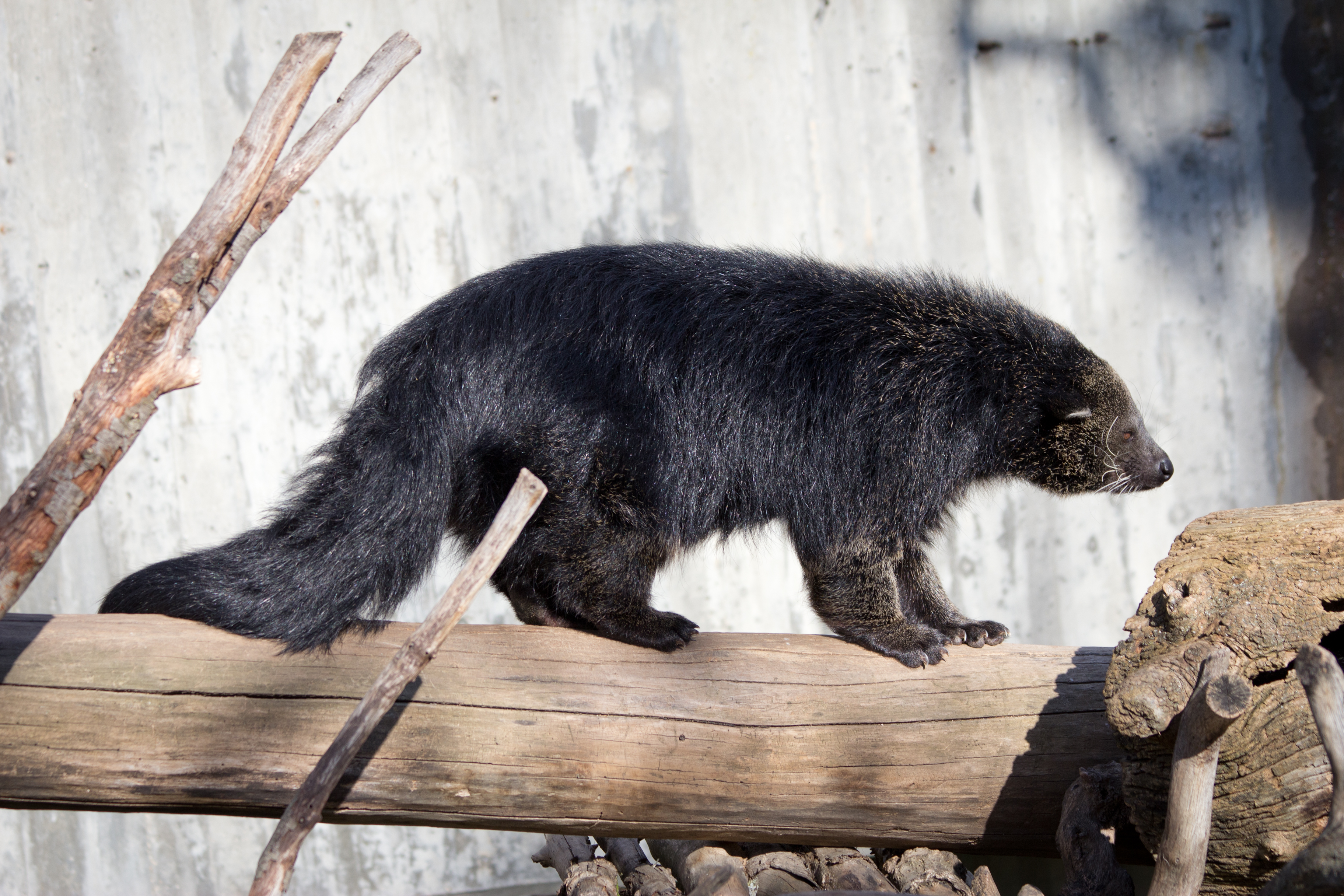 Binturong (Arctictis binturong) at the Zoo of Madrid, Spain.